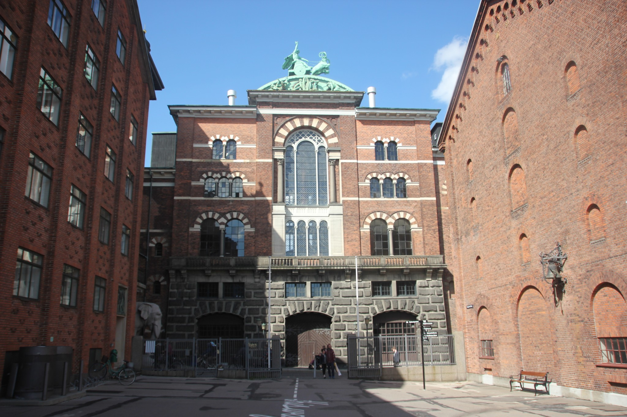 The Ny Carlsberg Brewhouse in the Carlsberg district of Copenhagen, Denmark